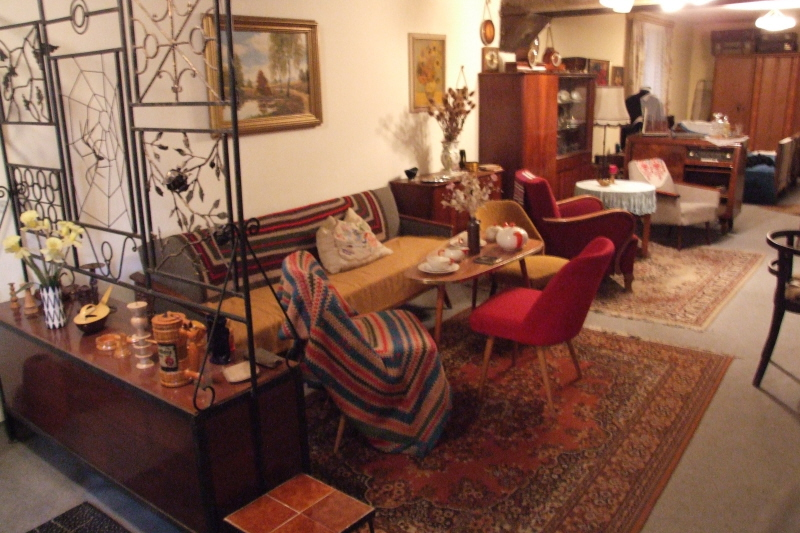 workers flat in Industriemuseum Brandenburg